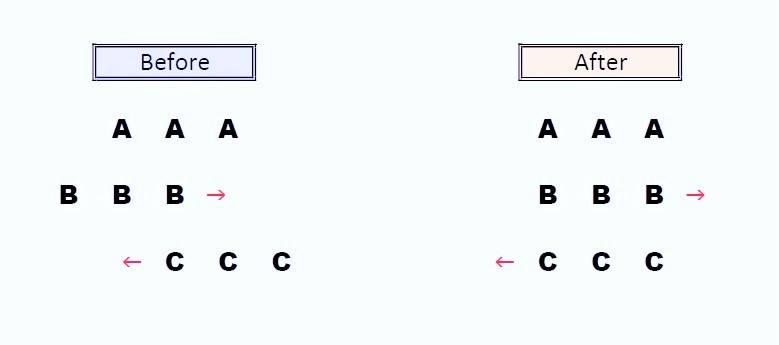 Simple picture used for interpreting Zeno's Paradox "The Moving Rows", the 4th paradox of motion. Three tracks are there in a Stadium. The first track contains A-bodies, the second track contains B-bodies & third track contains C-bodies as shown in the picture. Body B's are moving to the right and body C's are moving to the left while body A's are stationary. Situation before and after the movement of rows are shown in the picture